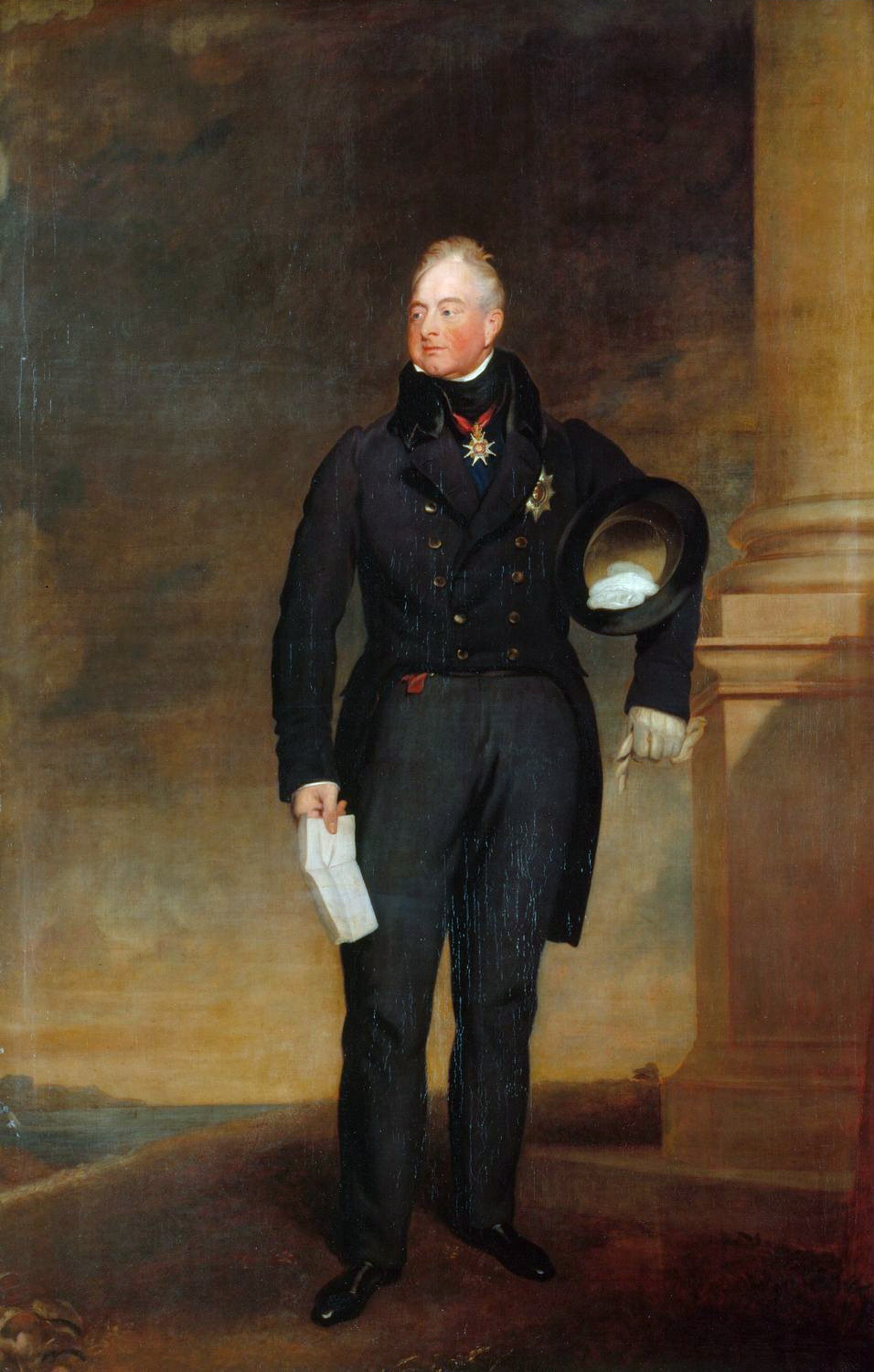 Portrait of William IV, when Duke of Clarence